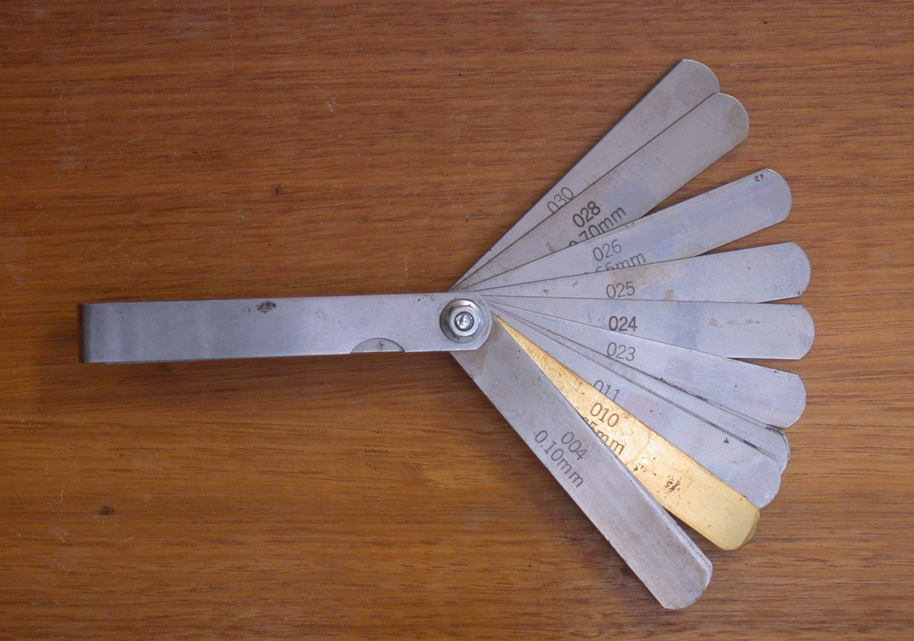 Photograph taken by Glenn McKechnie on the 24th March 2005.